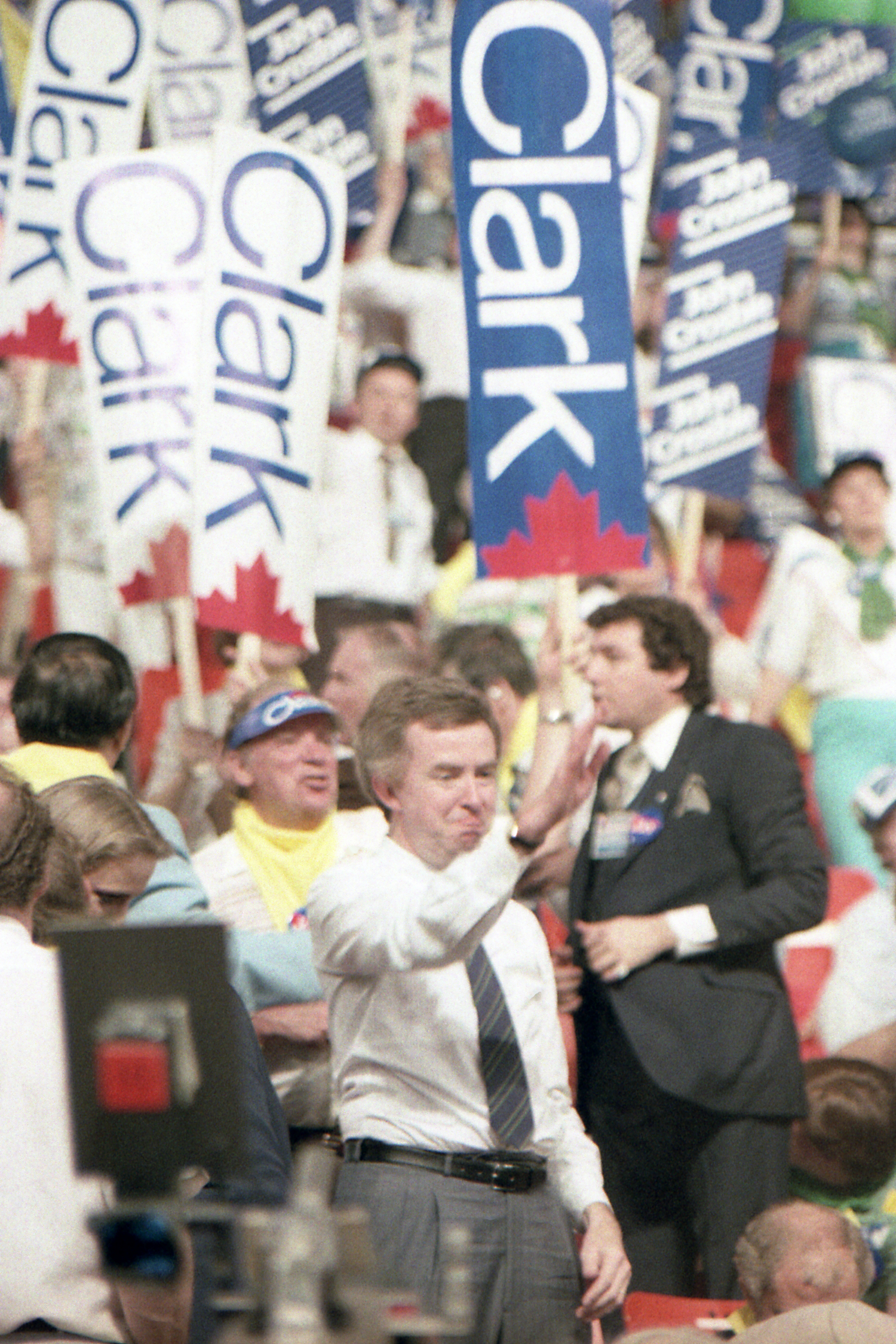 Photo of Joe Clark taken on the floor of the Progressive Conservative leadership convention, 11 June 1983. Photo taken by Alasdair Roberts.